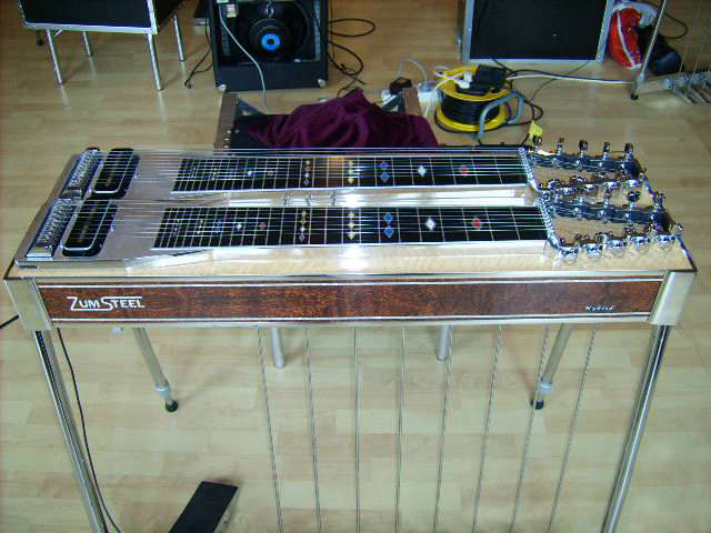 Zumsteel Double 10